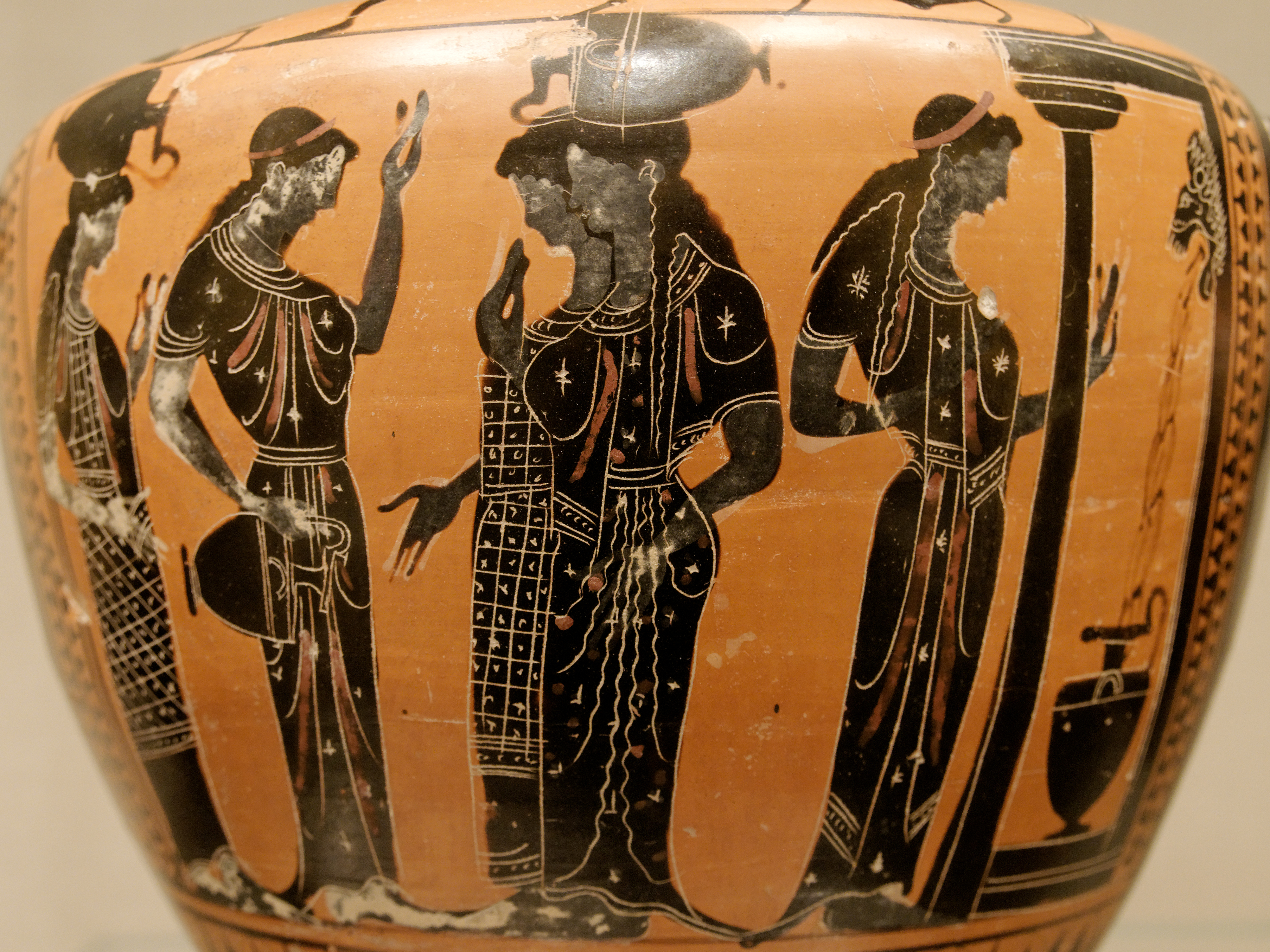 Women drawing water at the fountain house, belly of an Attic black-figure hydria.